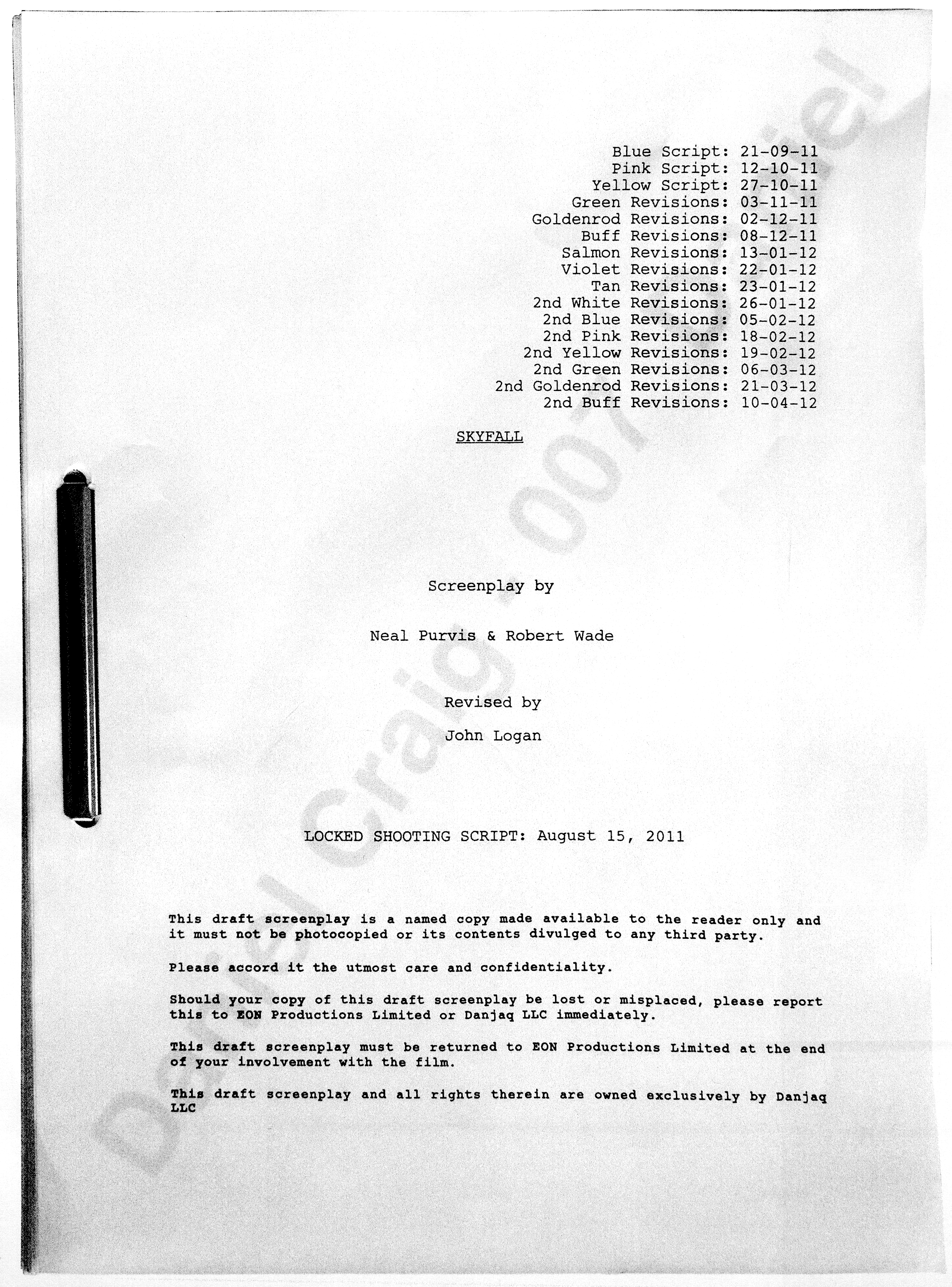 title page of the final script to the James Bond movie Skyfall, 2011- Personalized copy for Daniel Craig